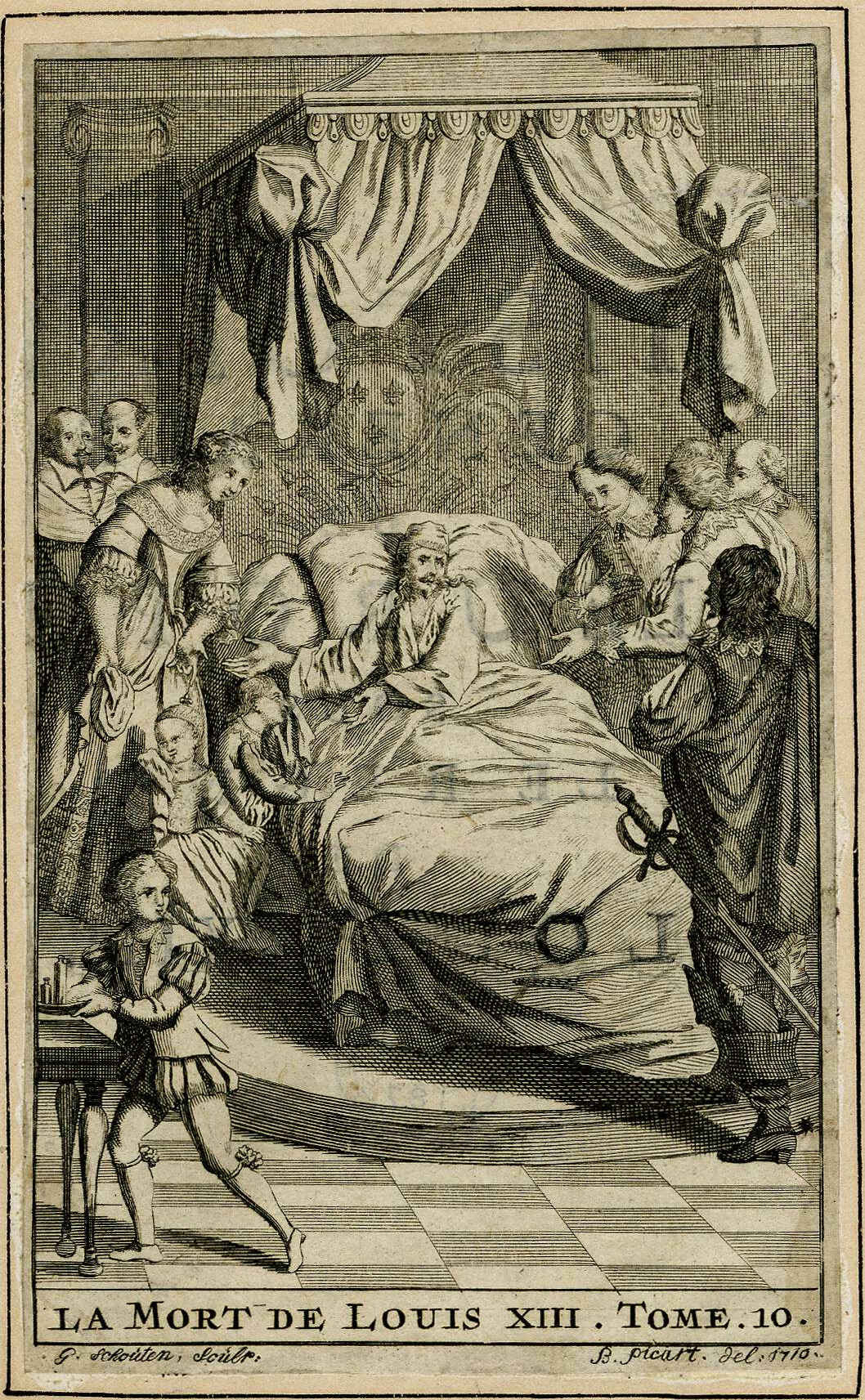 Death of Louis XIII of France, illustration from Michel Le Vassor's Histoire du règne de Louis XIII.